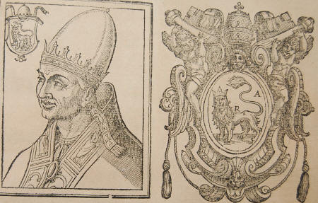 Pope Victor II and his coat of arms